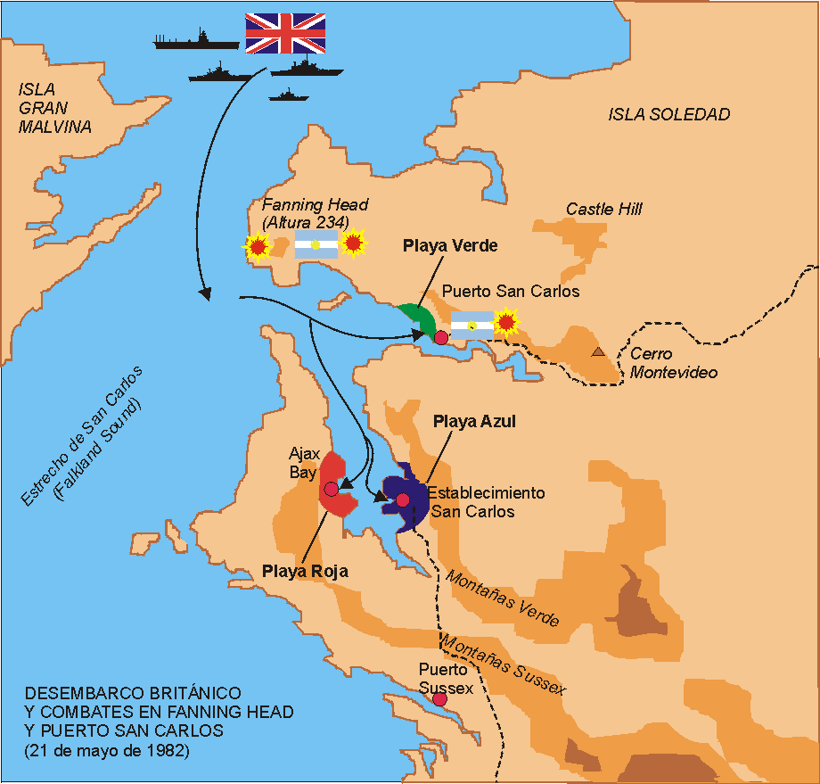 British landing on Falkland Islands May 21, 1982. Modified version of Image:San_Carlos_1.png made by Rafunken. This file is modified: Isla Gran Malvina - West Falkland. Isla Soledad - East Falkland.